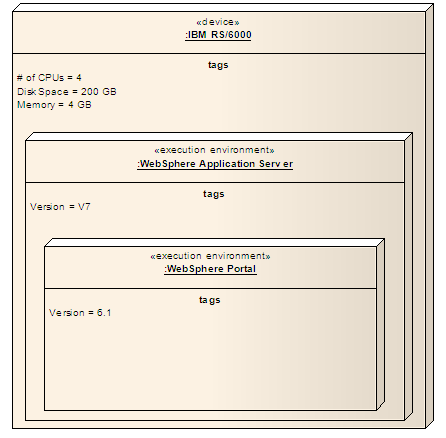 Examples of nodes, devices and execution environments